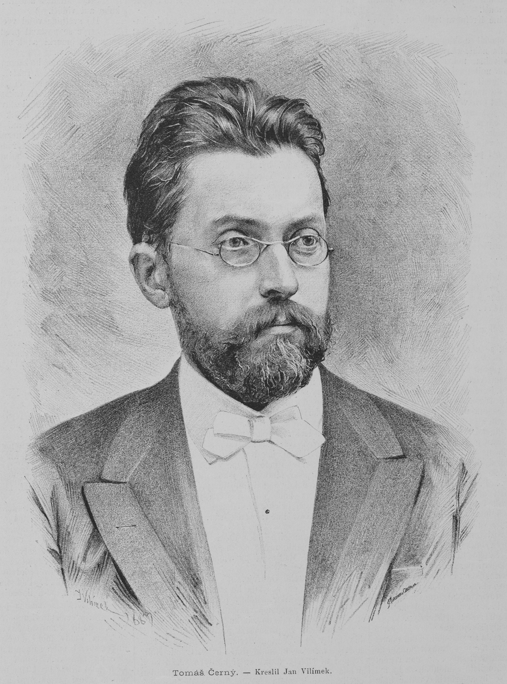 Portrait of Tomáš Černý (1840–1909), Czech lawyer and politician, Mayor of Prague 1882–1885.